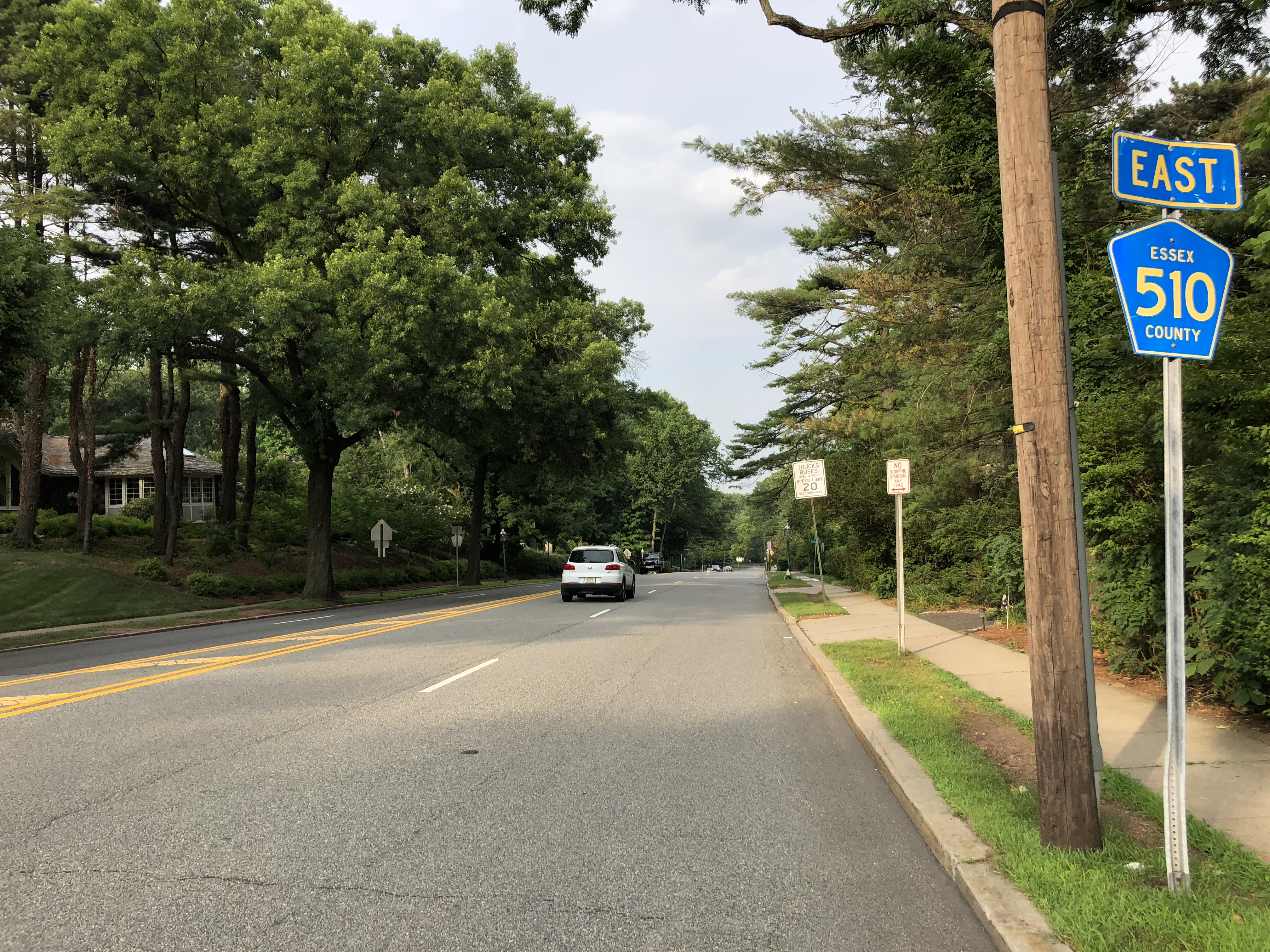 View east along Essex County Route 510 (South Orange Avenue) just east of Essex County Route 577 (Wyoming Avenue) in South Orange Township, Essex County, New Jersey